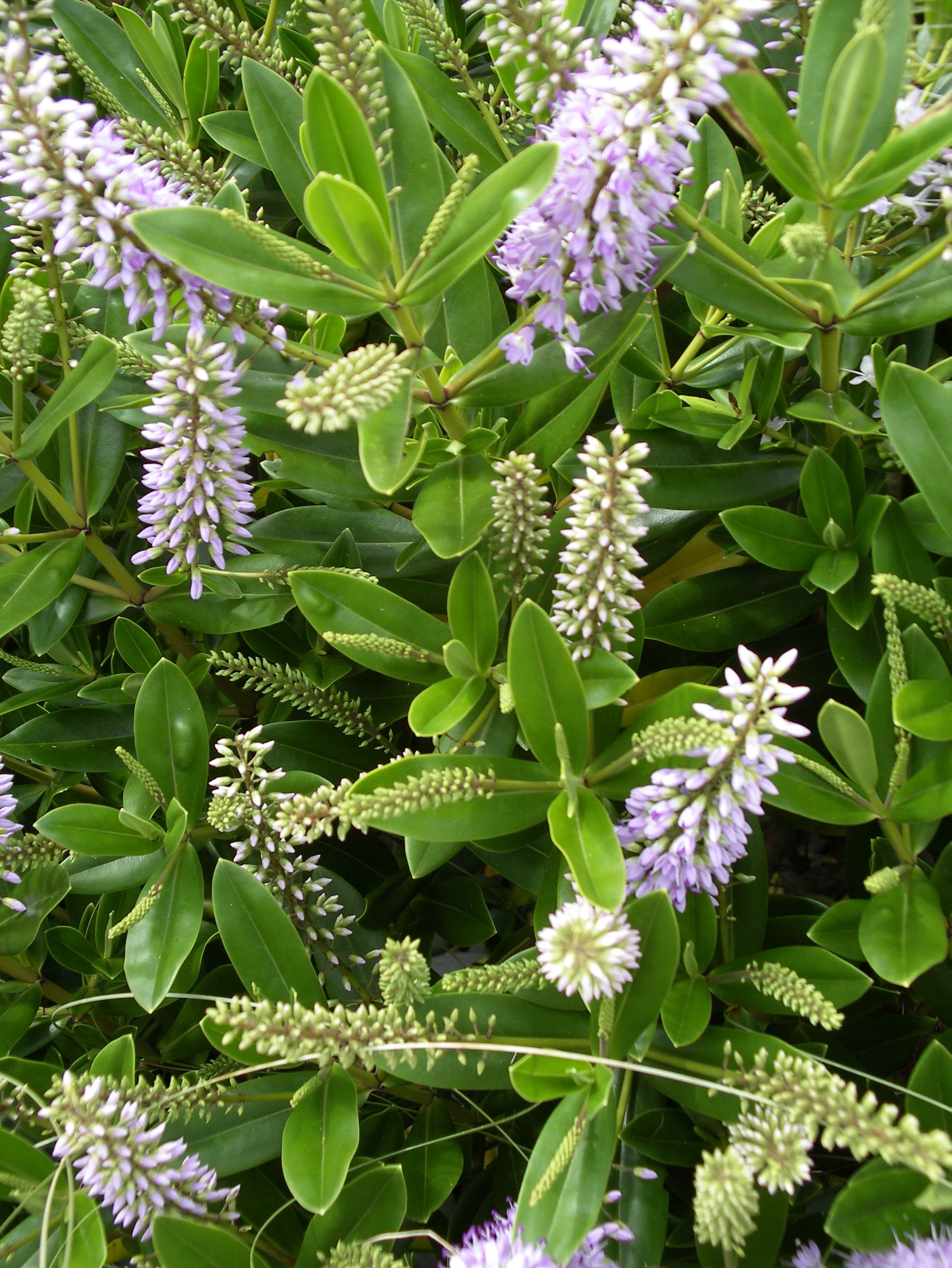 Created by User:Petaholmes